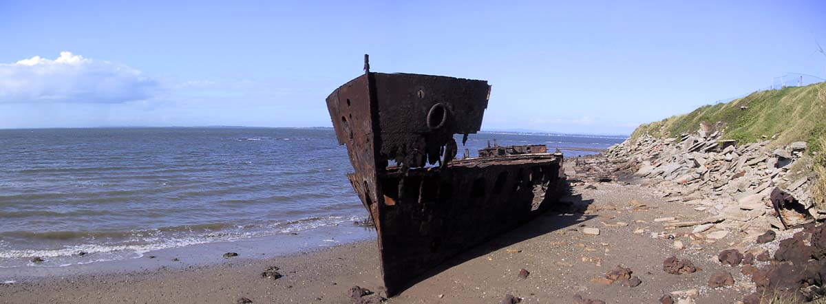 Final resting place of the once mighty HMQS Gayundah